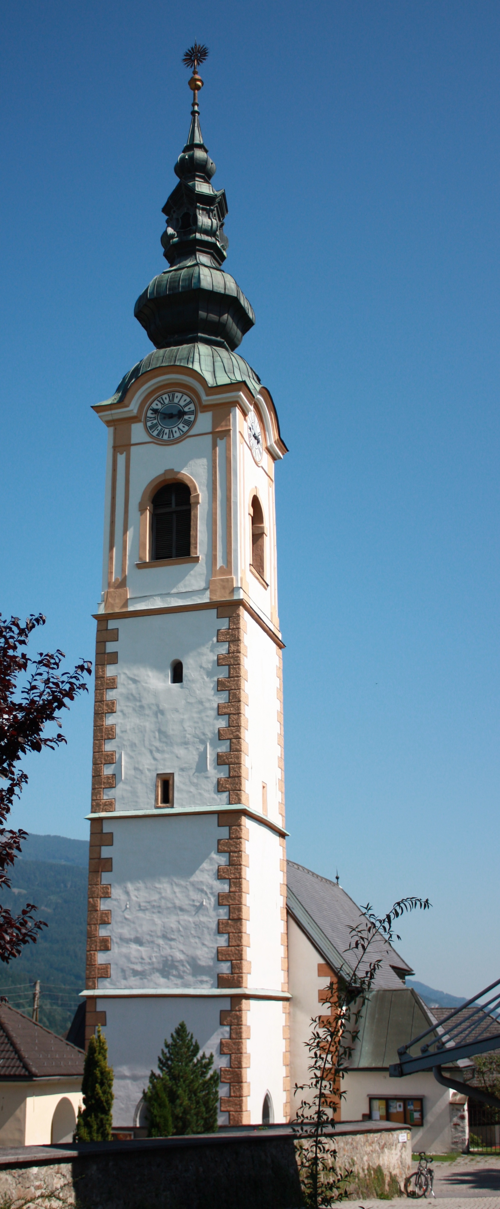 Parish church Saint George Locality: Feistritz an der Drau Community:Paternion